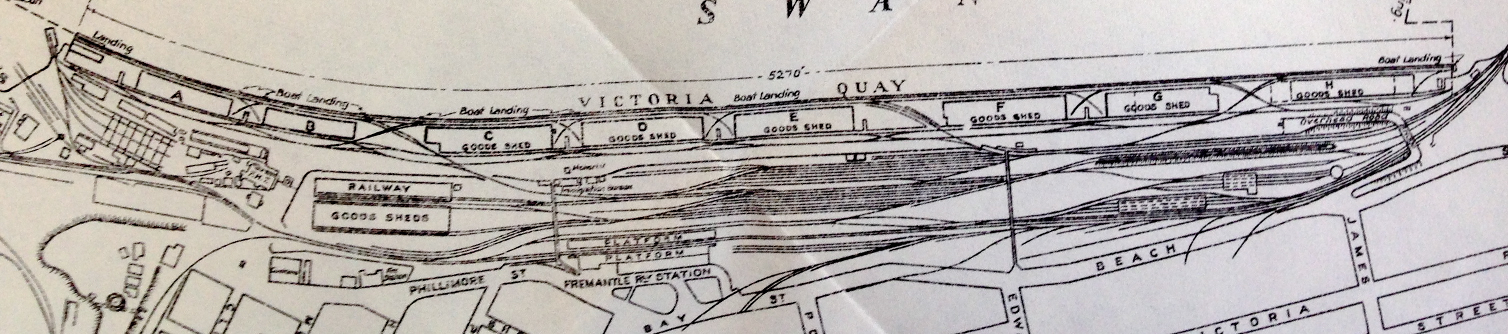 Map of Victoria Quay and the Fremantle railway marshalling yards as mapped in 1935 Handbook of information relative to the Port of Fremantle, Western Australia, 1935[1], Fred. Wm. Simpson, Government Printer, 1935